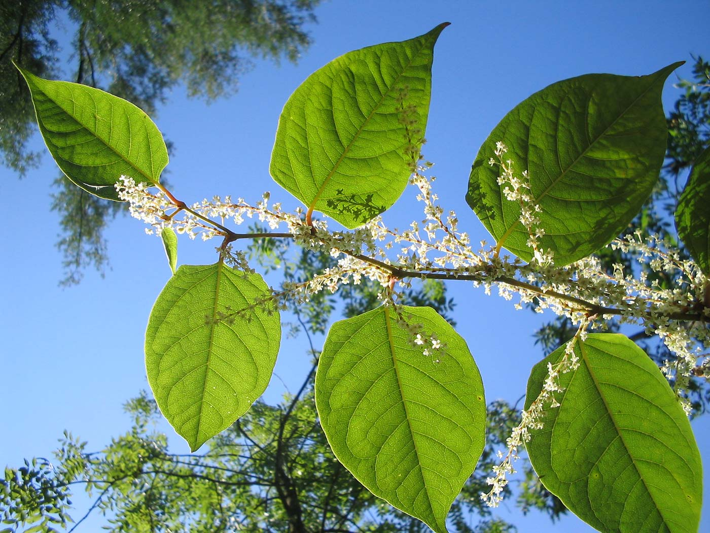 Description: Japanischer Staudenknöterich (Fallopia japonica, Blätter) Date : 8.Sep'05 14h Photographer : Michael Gasperl (Migas) Location: AUT/OÖ/Steyr Source: selbst fotografiert